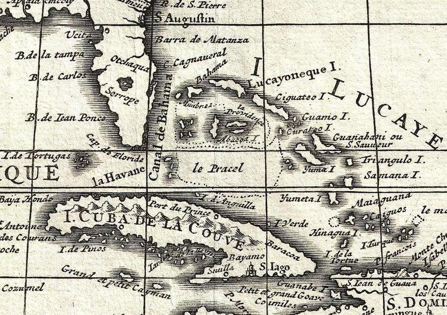 "Le Pracel" in a 1708 De L'Isle Map of North America